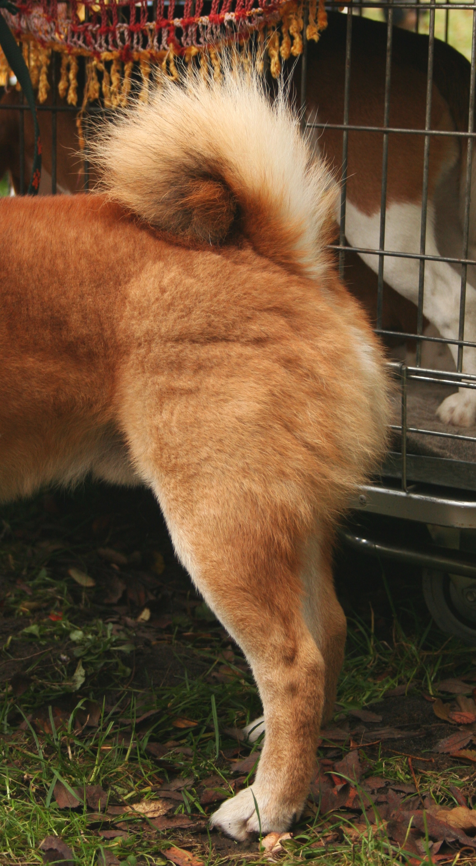 Shiba inu during show of dogs in Rybnik - Kamień, Poland